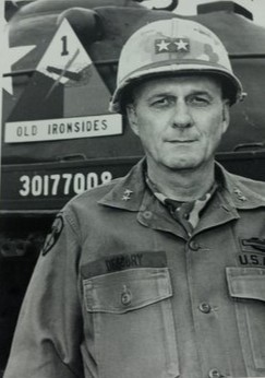 Image of MG Desobry in front of 2nd AD tank